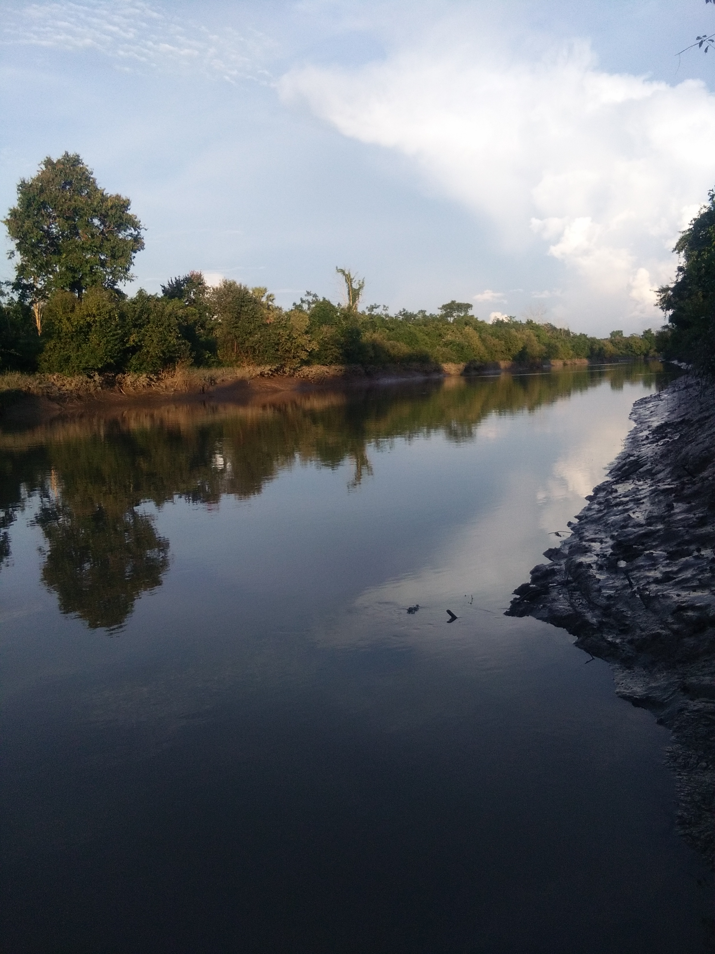 Photo taken in the west bank of Ta Khun Taing - Kawamkathaung segment just after looking back towards Kawankathaung.